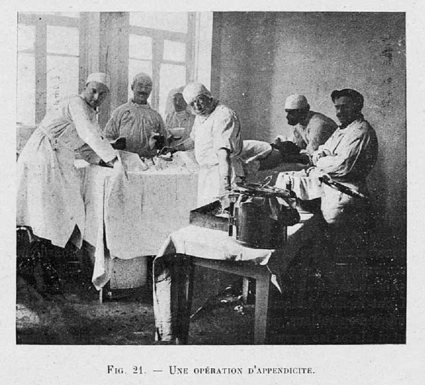 Appendectomy at the French Hospital in Tiflis, Georgia